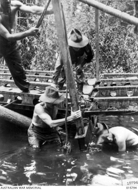 Bunga River, Lae, New Guinea. 1943-09. Erecting a pontoon bridge on the track to Lae to facilitate passage of artillery, which played a major part in the capture of Lae.